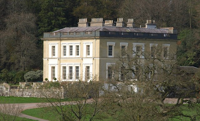 Escot House, near to Fairmile, Devon, Great Britain.